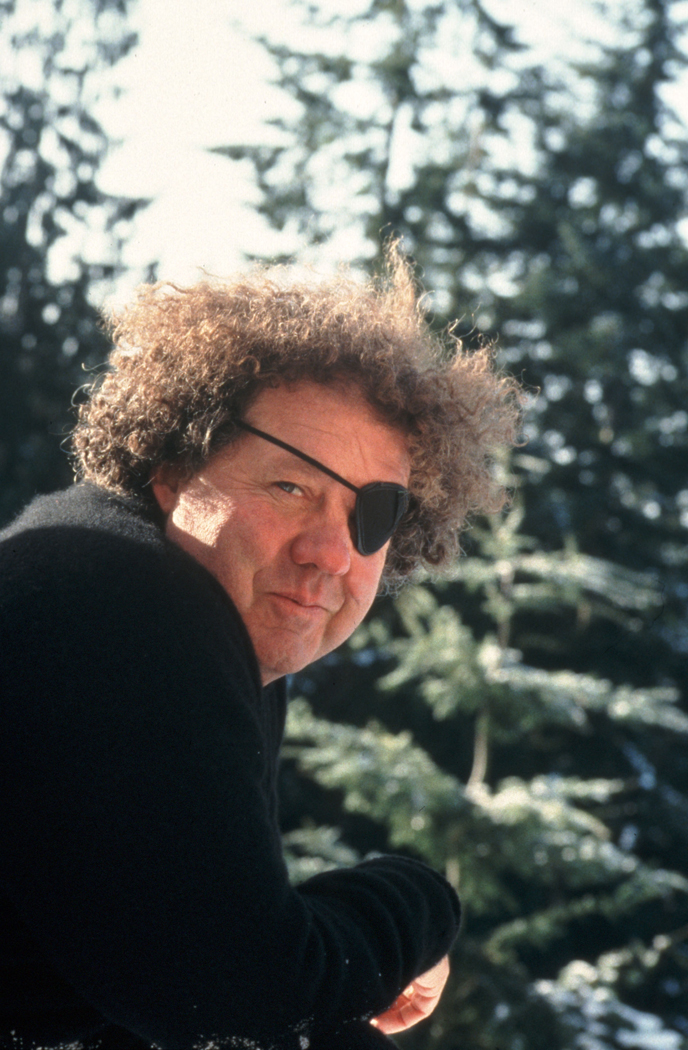 Portrait of Dale Chihuly, 1992, at Pilchuck Glass School, near Stanwood, Washington.